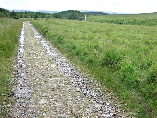 Sarn Helen Roman Road, Coed y Rhaiadr